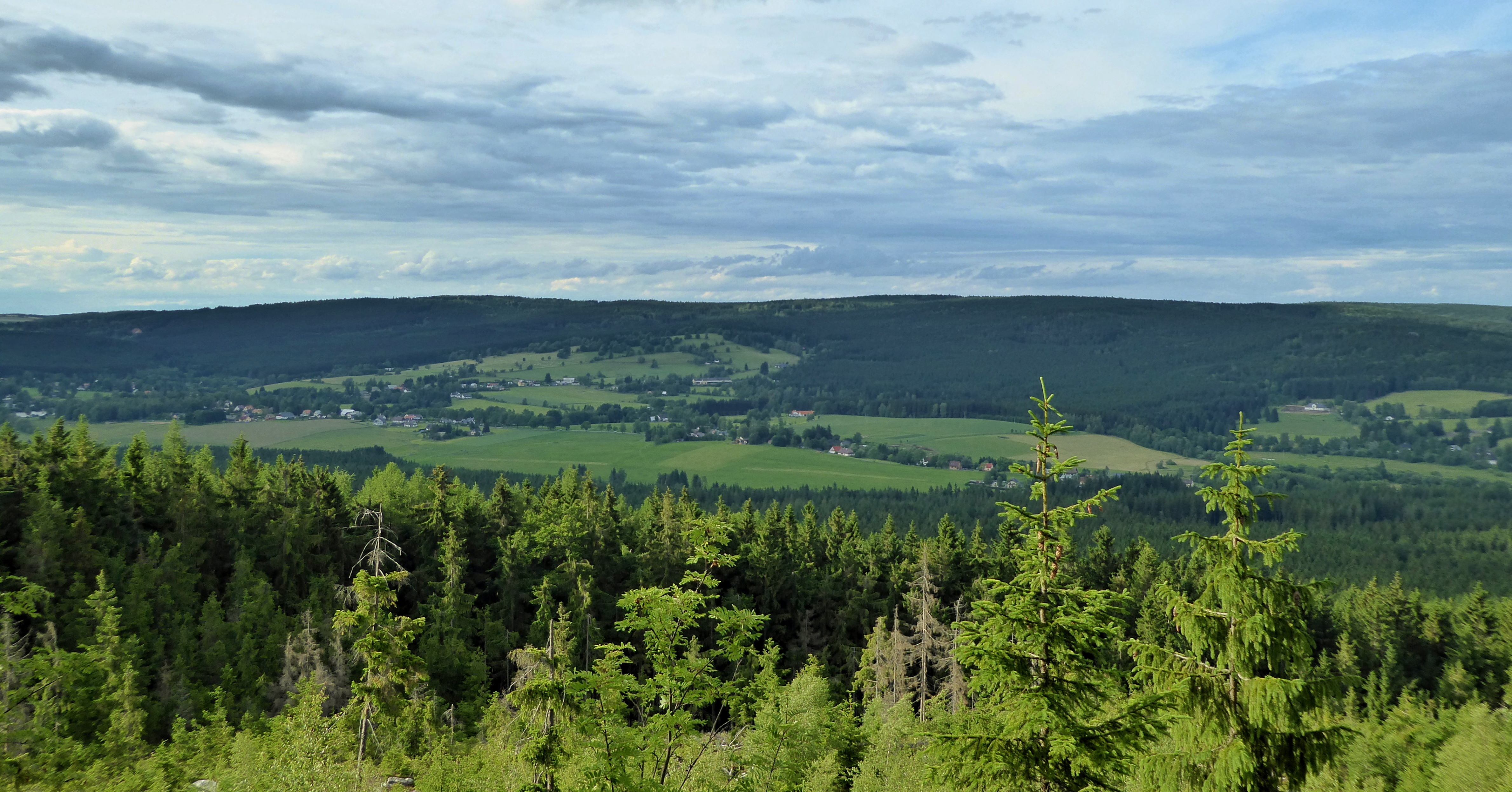 "Borovský" forest (forest massif on the horizon) is a landscape area and a geomorphological district in the northern part of "Žďárské" Hills. It is part of the "Hornosvratecká" Highlands in regional breakdown shape of the earth's surface of Czechia. View from the top of the Malinska Rock (811 m above sea level) in "Devítiskalská" Highlands. Photo location: Czechia, Vysočina Region, villages Křižánky.